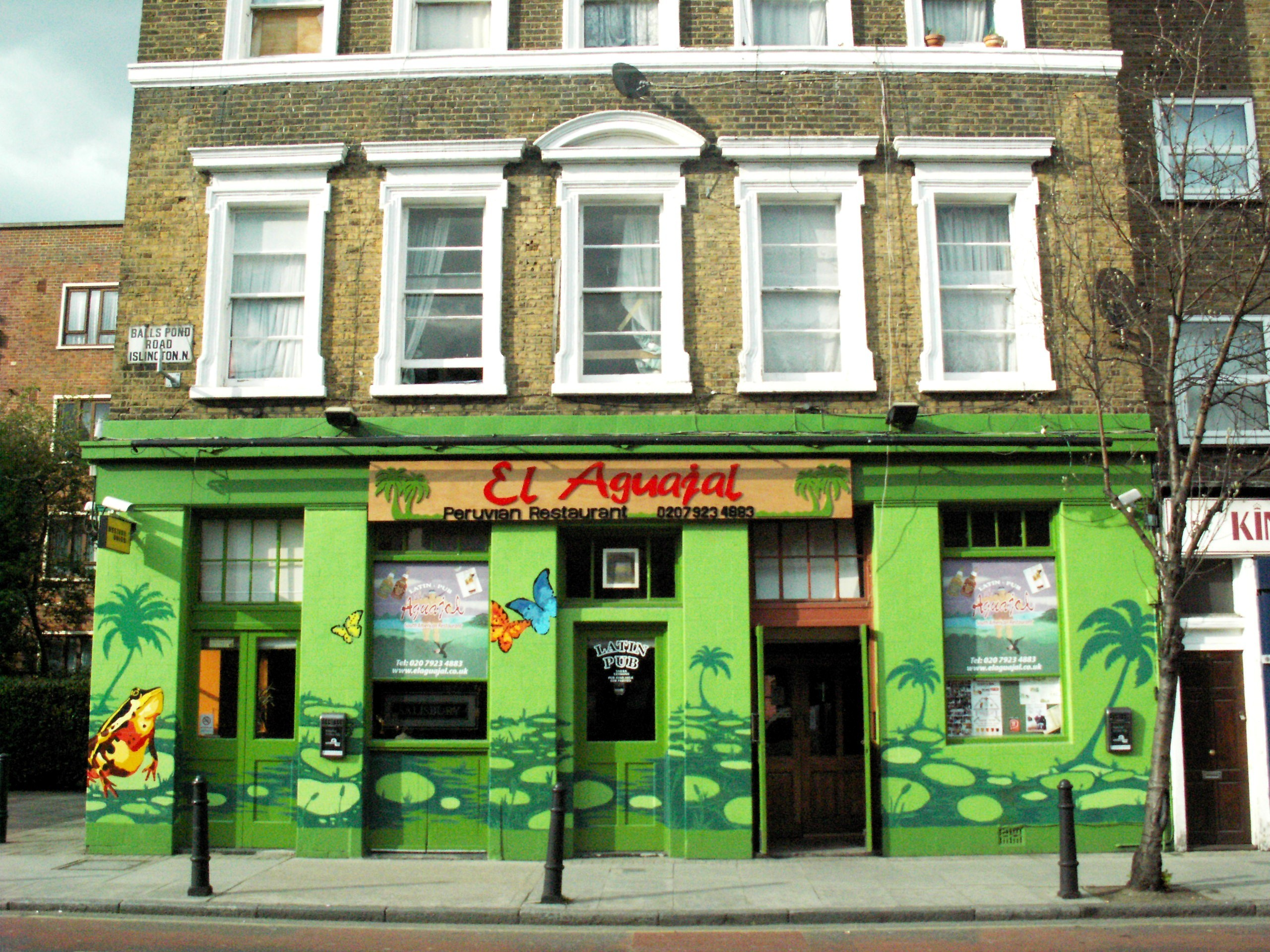 El Aquaial Peruvian Restaurant, Dalston, London, UK